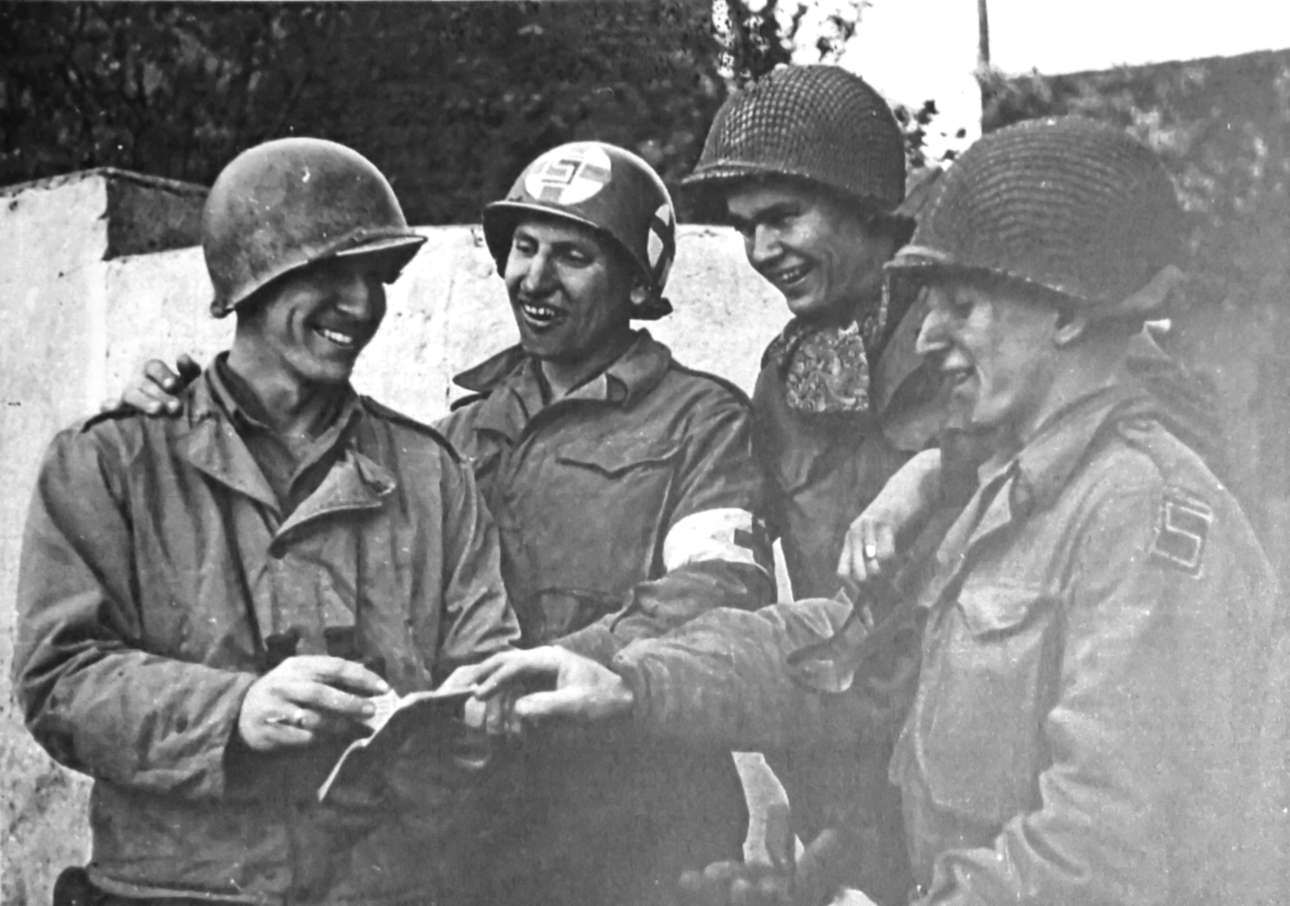 fist Lt. Kotzebue and 3 members of his patrol